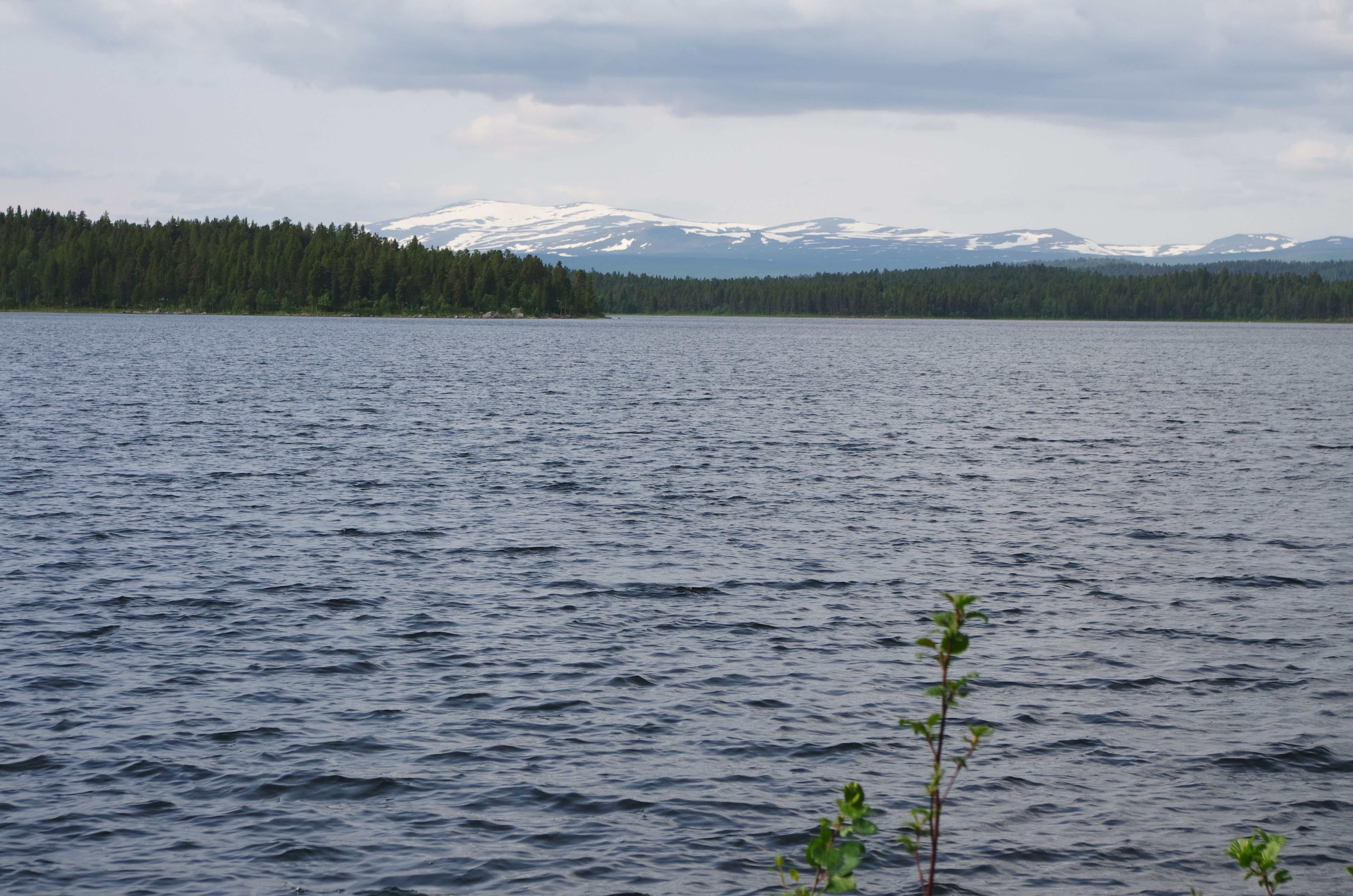 Jäggaure (modern spelling Jäggávrre) is a lake in Arjeplog Municipality, Lappland, Sweden. The hiking trail Kungsleden passes the lake.